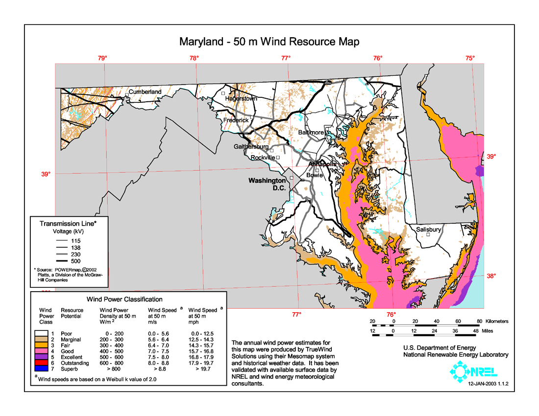 Average annual wind power distribution for Maryland, 50m height above ground, also showing location of existing electrical transmission lines